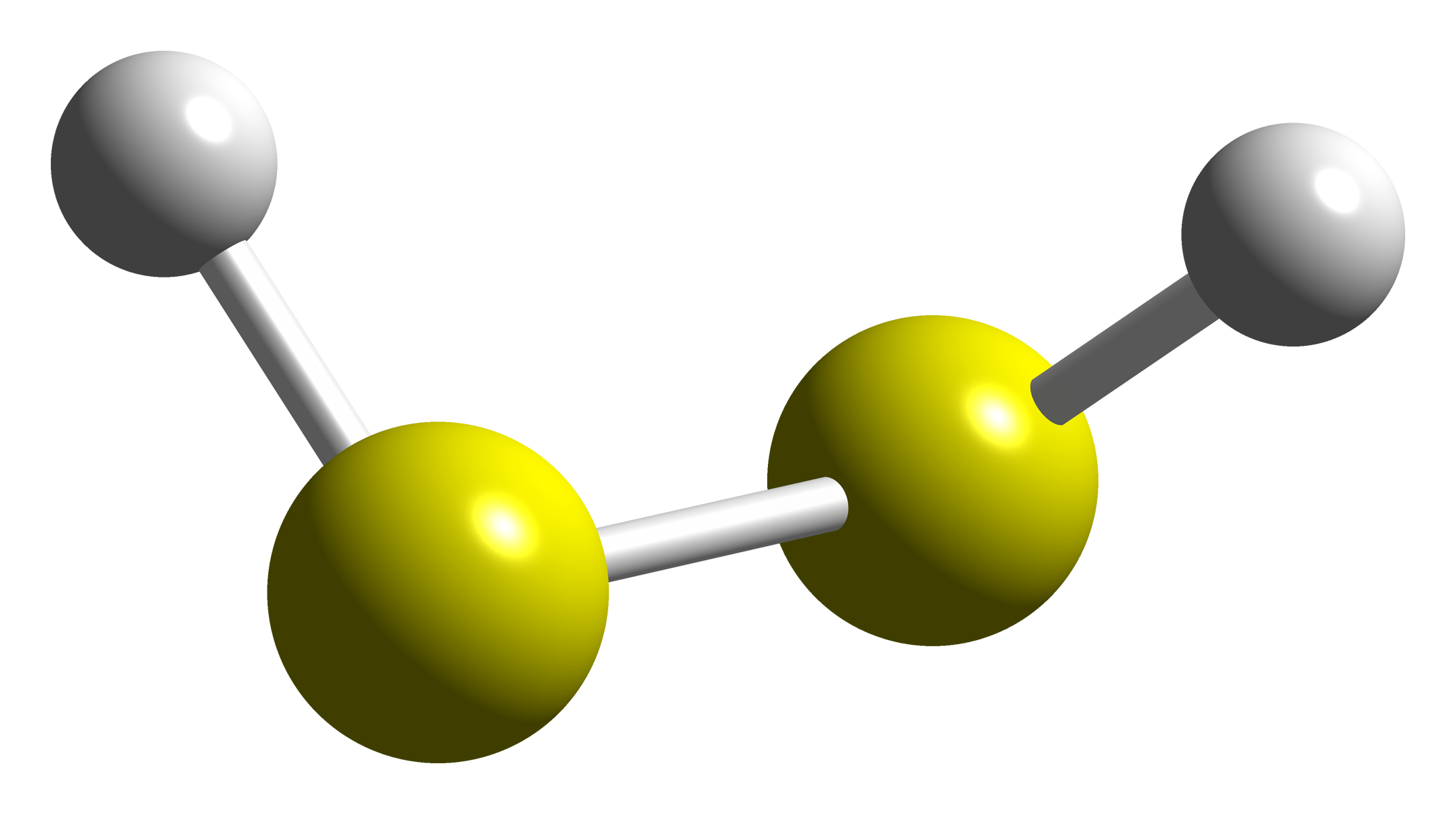 Ball-and-stick model of the hydrogen disulfide molecule, H2S2, or HSSH. Colour code: Sulfur, S: yellow Hydrogen, H: white Structure based on parameters from the Wikipedia article: Image generated in CrystalMaker 8.2.